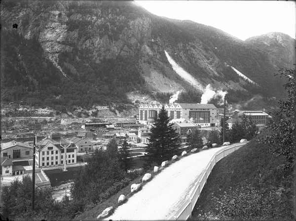 Factory Buildings for Norsk Hydro in Tinn, Rjukan, Norway. Probably in 1912.